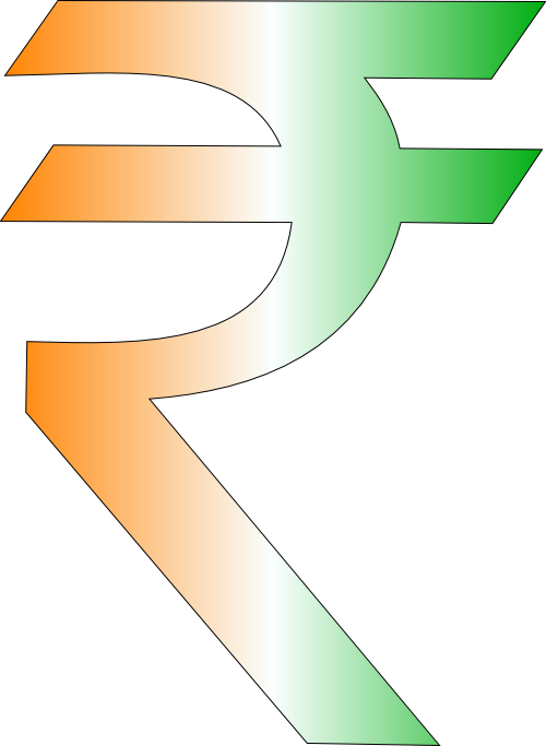 New Symbol for Indian Rupee